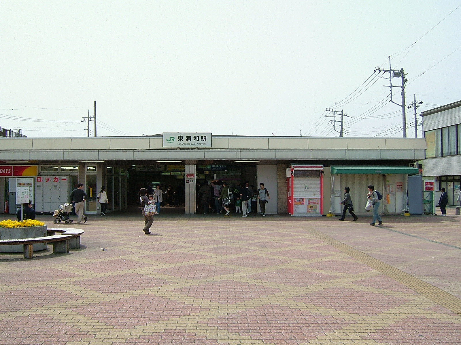 Higashi-Urawa Station Building